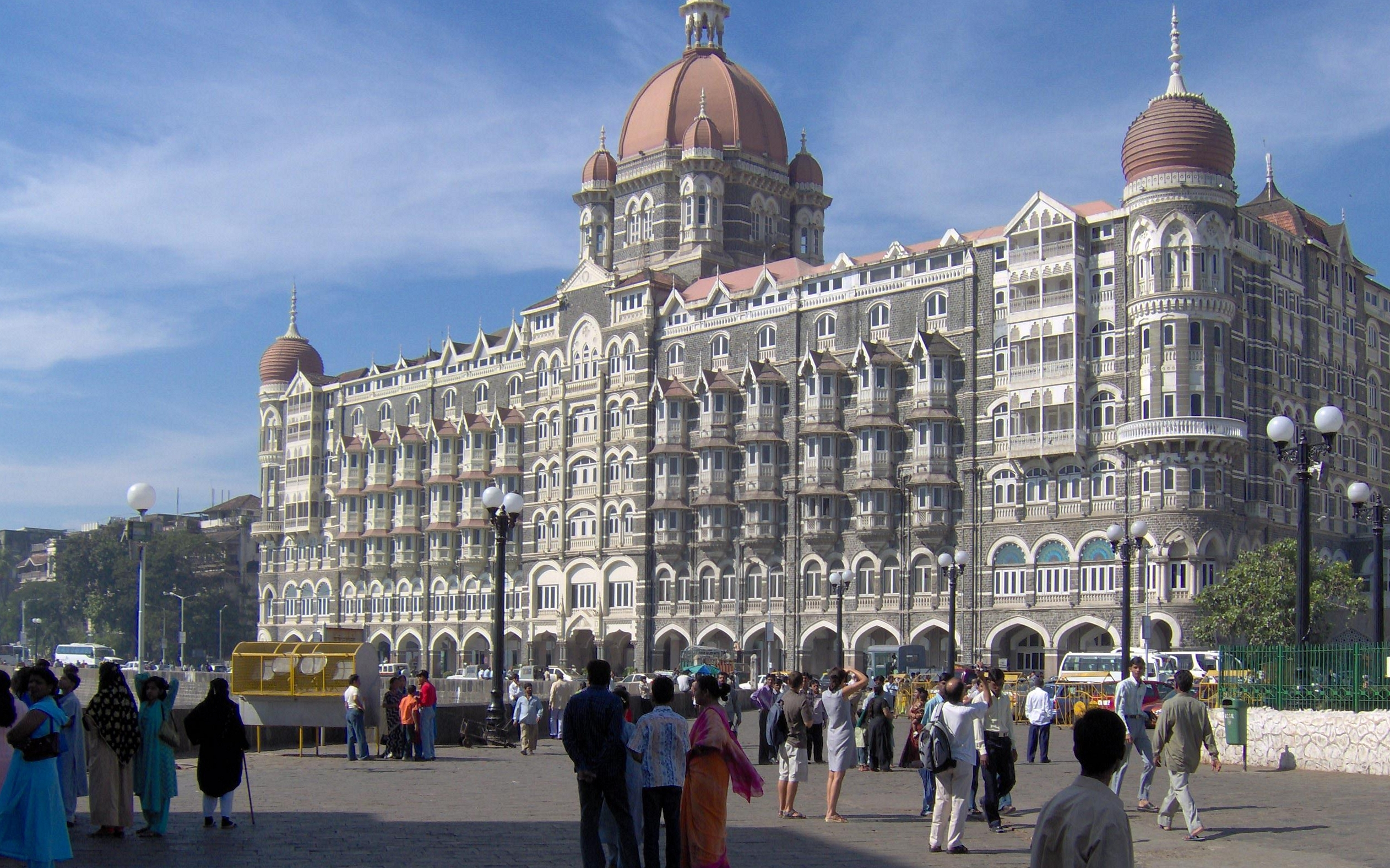 The Taj Mahal Hotel, built by the Tata family to surpass any of the European-only luxury hotels that were around then, Mumbai.